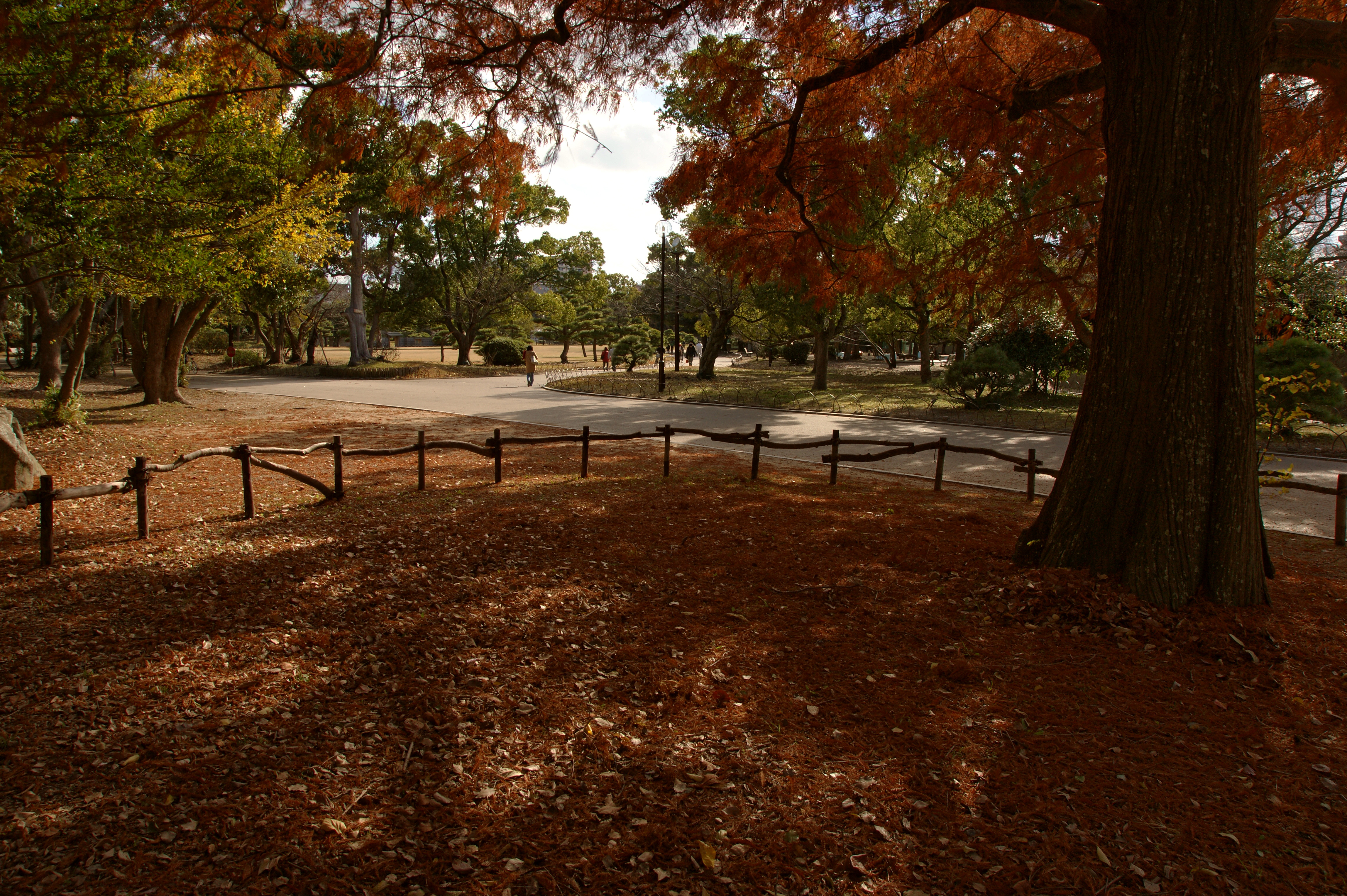 Akashi Castle (Akashi Park), Akashi, Hyogo prefecture, Japan